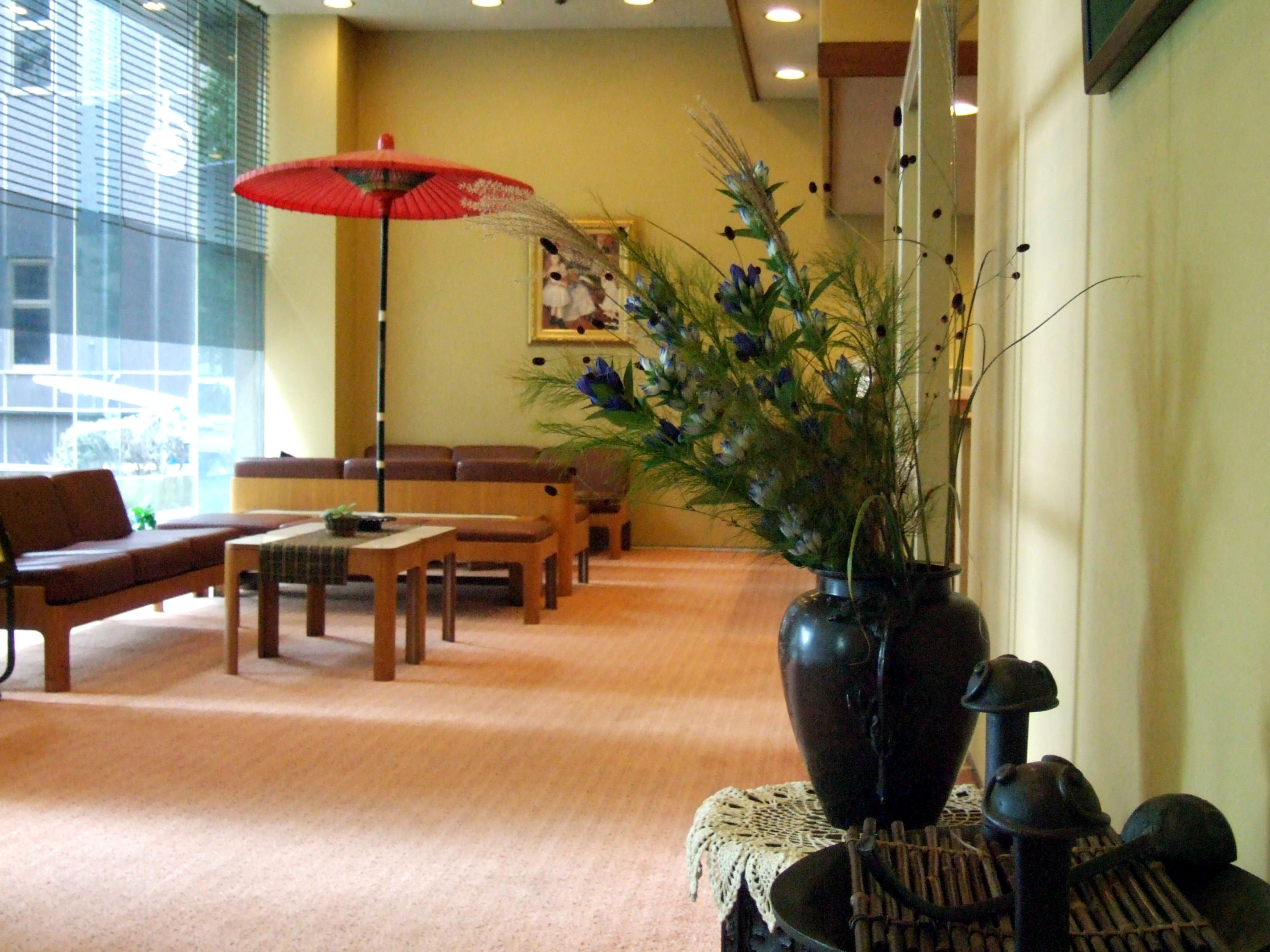 Hotel Ryumeikan roby